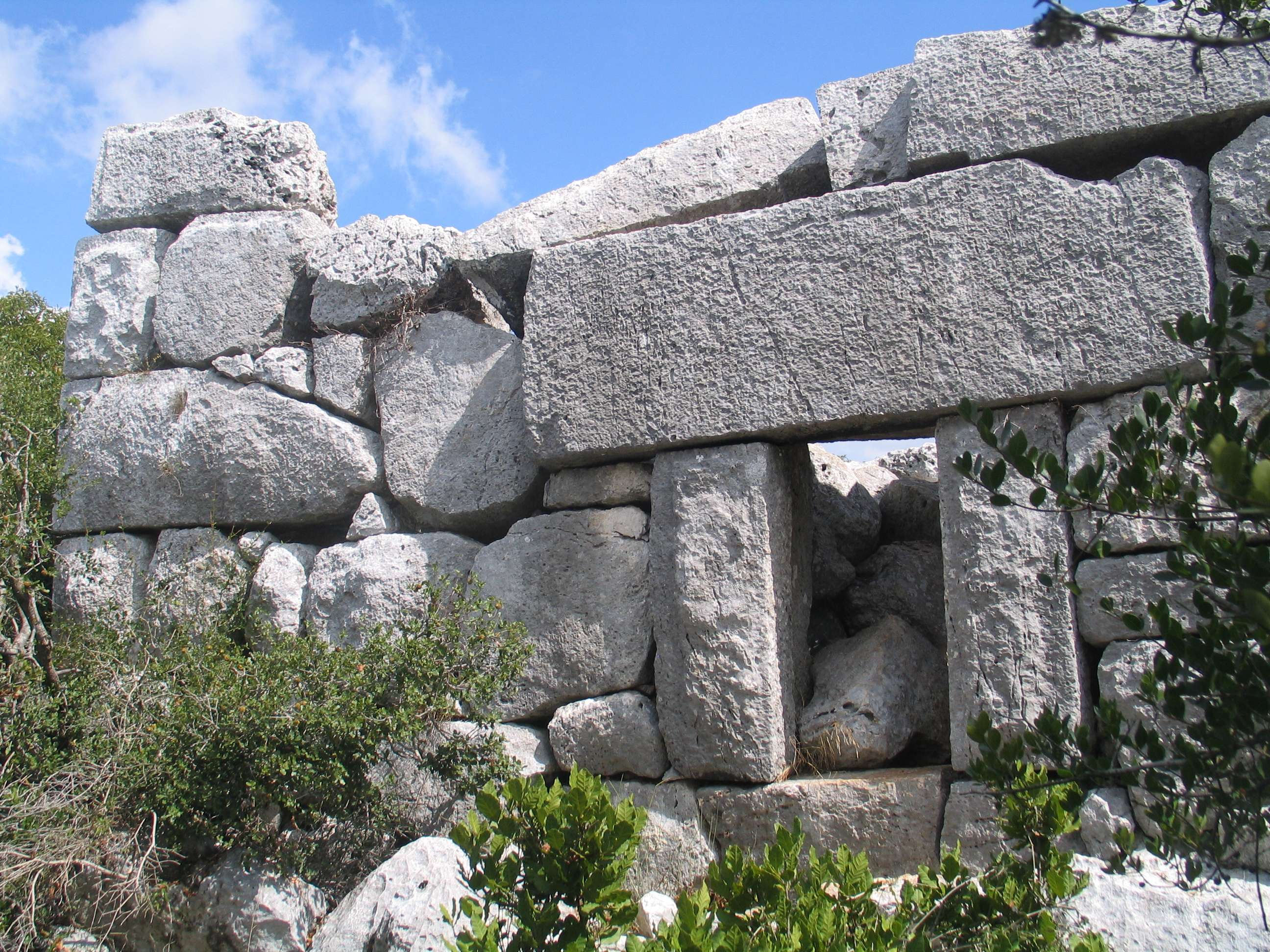 Metsad Abirim ("Fort of knights"), a tower or mausoleum ruin near Abirim, Israel.